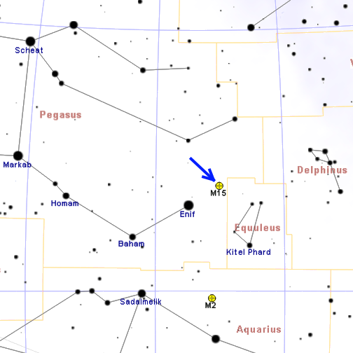 Map of M15